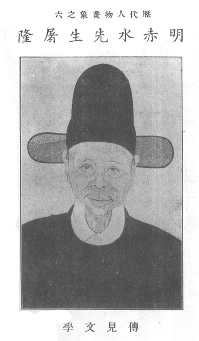 Tu Long, politician and scholar of the Ming Dynasty.